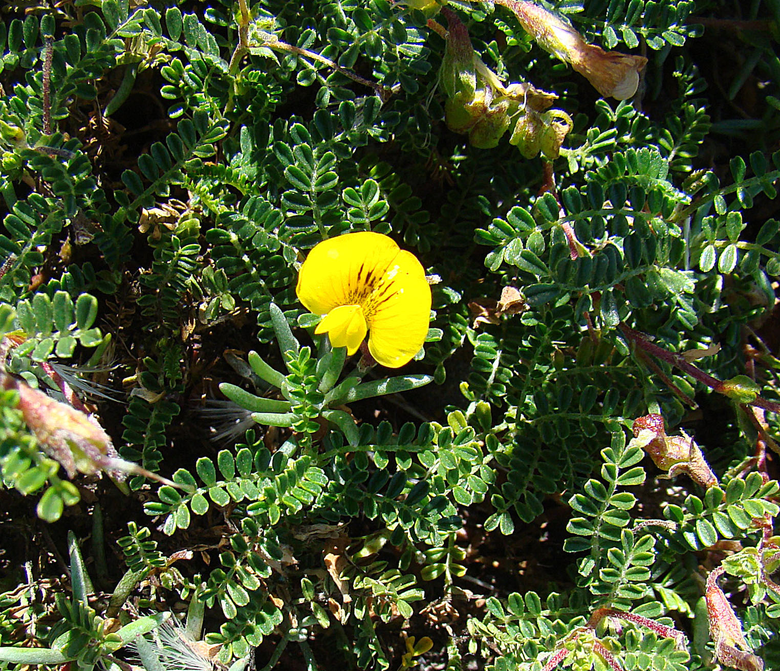 From timberline on Volcan Osorno, Chile. In context at